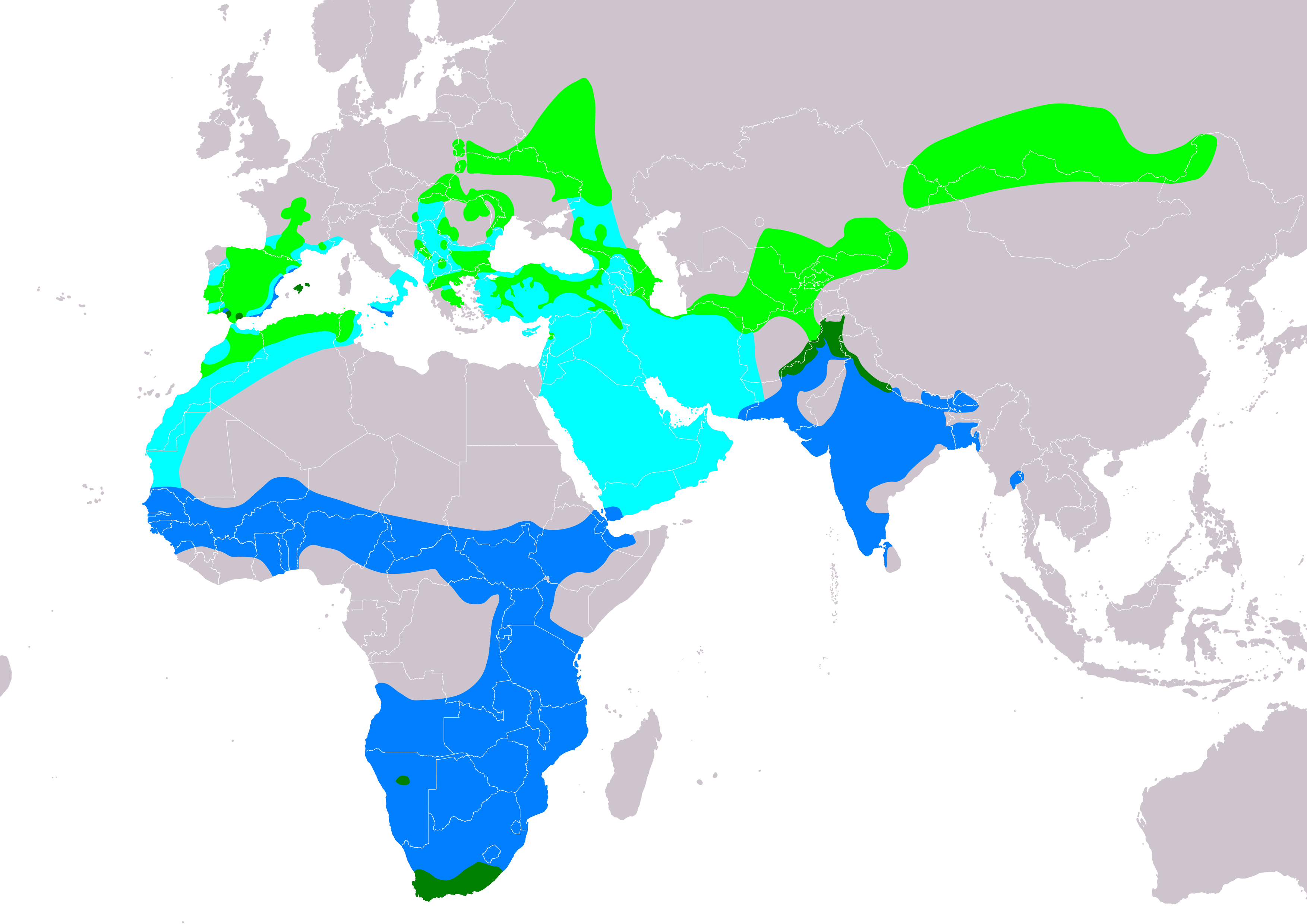 Distribution map of booted Eagle (Hieraaetus pennatus) according to IUCN verzsion 2018.2 , Legend: Extant, breeding (#00FF00), Extant, resident (#008000), Extant, passage (#00FFFF), Extant, non-breeding (#007FFF)